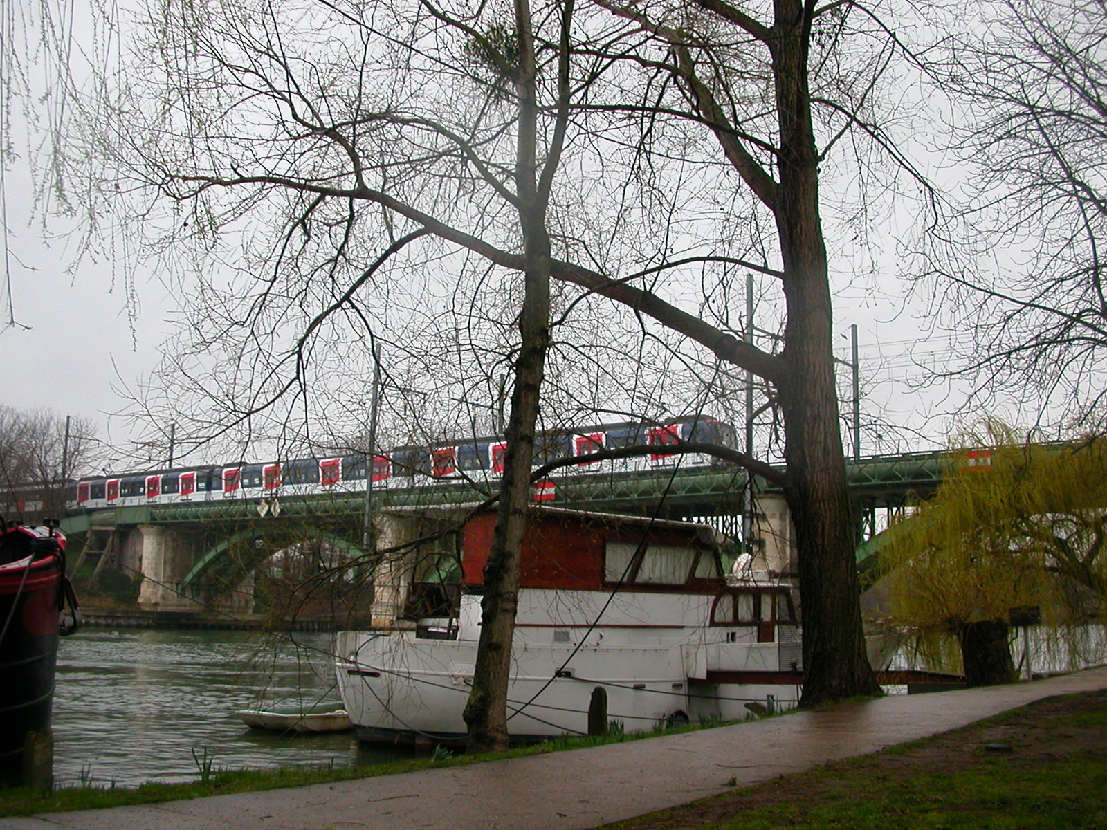 Railway bridge of the RER across the Seine between Rueil-Malmaison and Chatou .